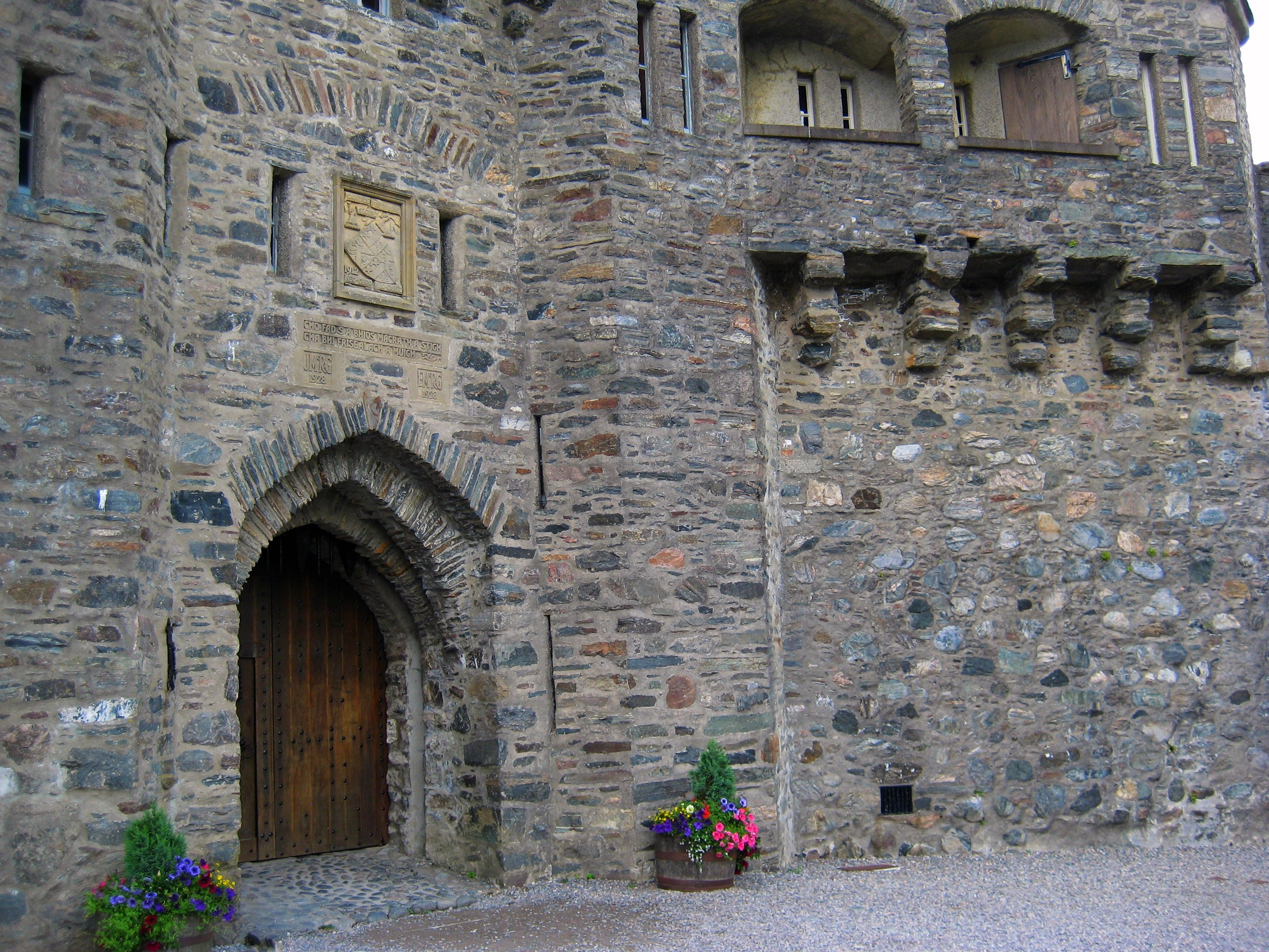 Eilean Donan frontdoor